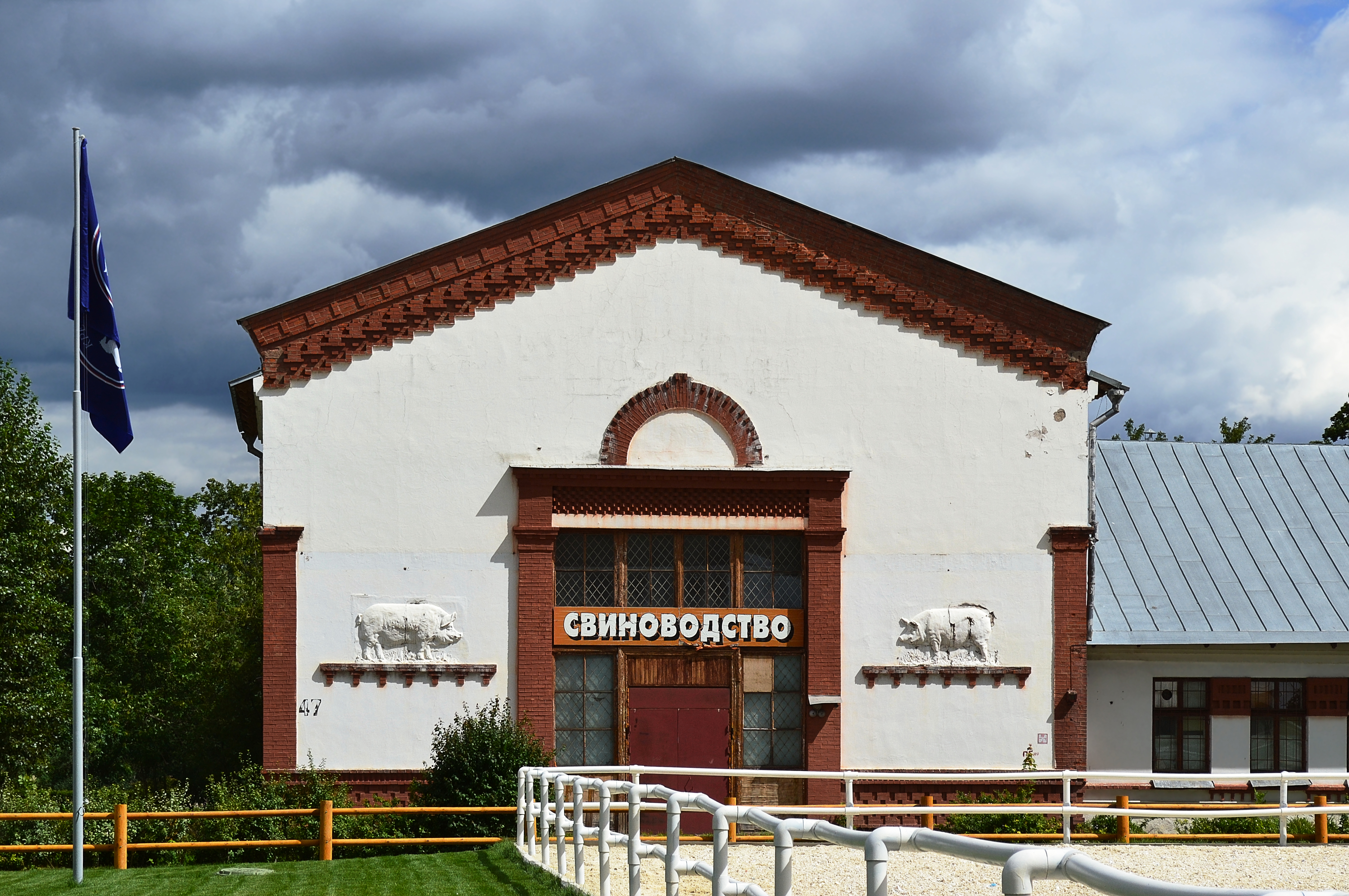 Moscow. VDNKh (the Exhibition of Achievements of the National Economy). Pavilion No 47 Pig Farming (the left side of the façade, the entrance). 1954. A photo from the user collection VDNKh.